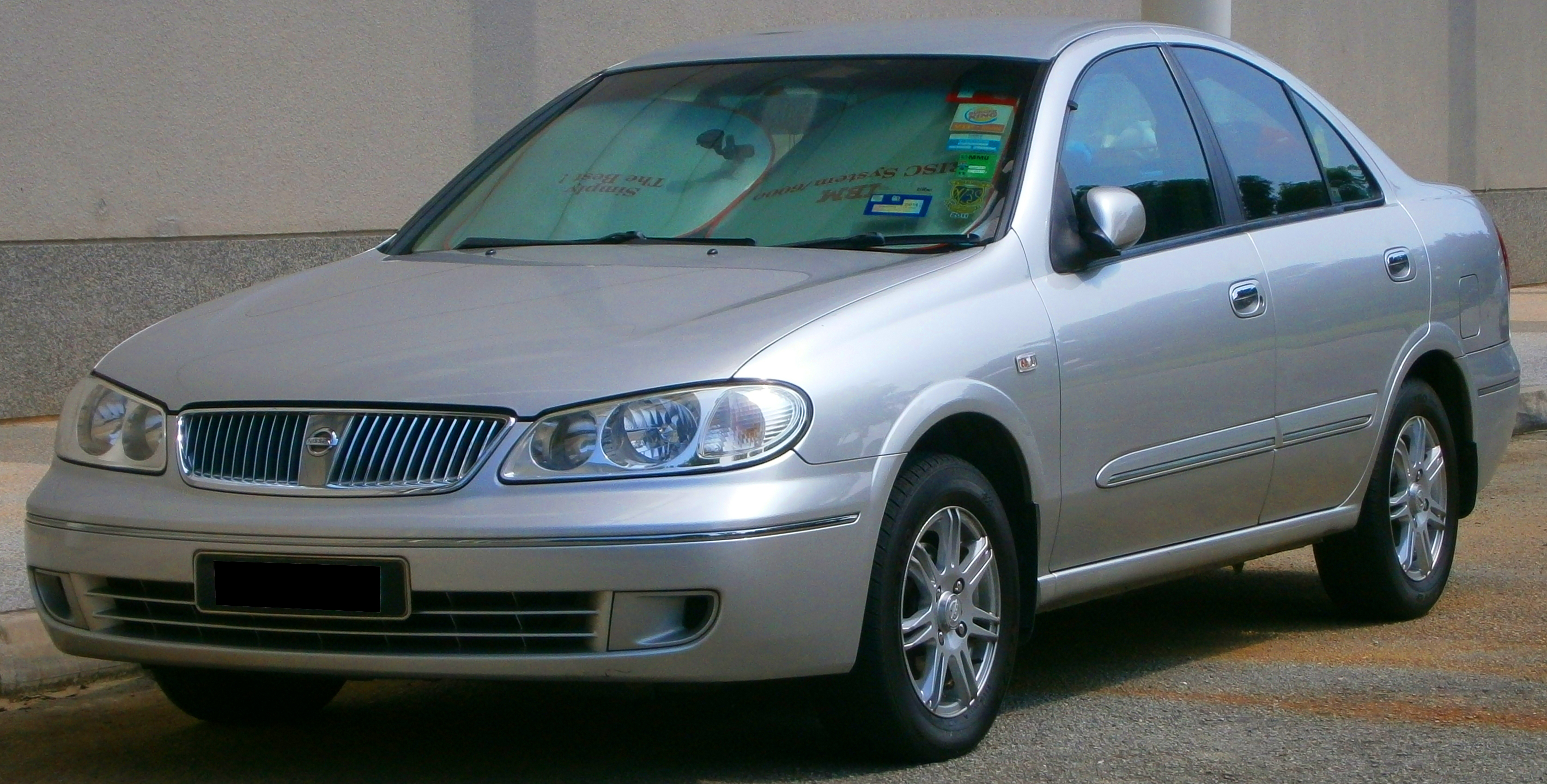 2004 Nissan Sentra N16 SG in Cyberjaya, Malaysia. Designed in Japan , Manufactured in Malaysia